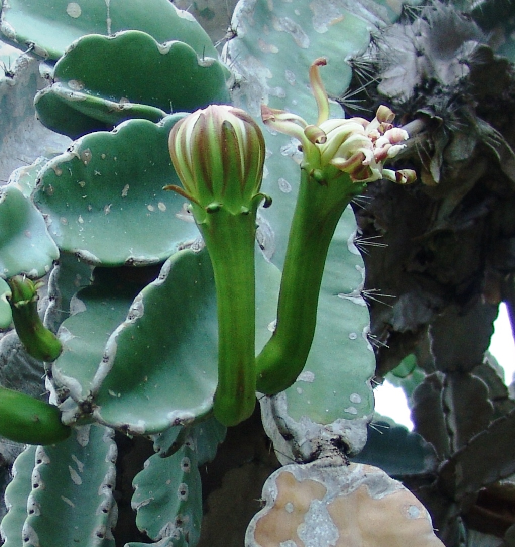 Dendrocereus flower at Varadero Beach.